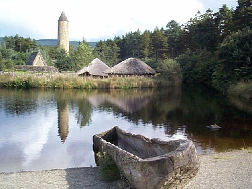 History Park, Glenpark Road, Omagh. Located on the road to Gortin. This park is now "history" itself as tourism couldn't sustain it and the local council sold it at a loss to get rid of it.